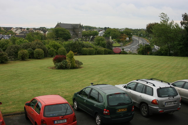 Tagoat village. The grounds of Coral Gables guesthouse, taken from a bedroom balcony. Behind is the N25 leading to Rosslare ferryport, with the church and houses of Tagoat village to the left - see1370013.